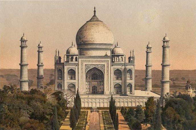 The Taj Mahal at Agra. A German chromolithograph made in 1895.